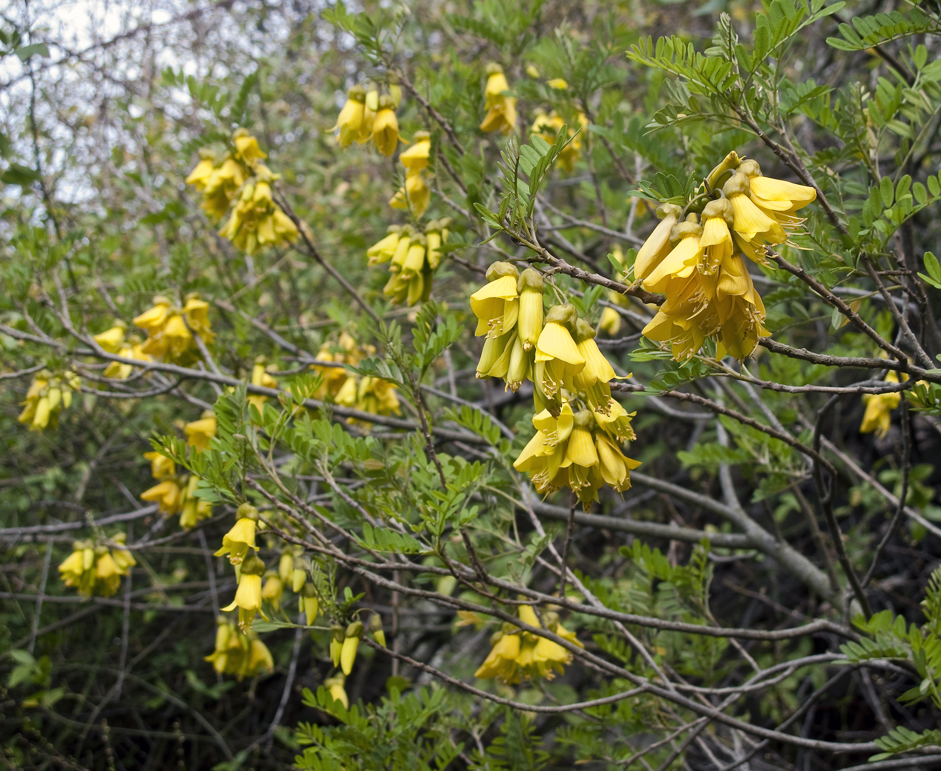 Sophora howinsula (Lord Howe kowhai), in cultivation in Berkeley. This Lord Howe Island endemic tree is related to the Hawaiian Mamane (Sophora chrysophylla) and other insular endemics in the Edwardsia section of Sophora (Fabaceae). This one grew from a seed from Lord Howe Island and flowers in a tub in my yard most years in January/February.